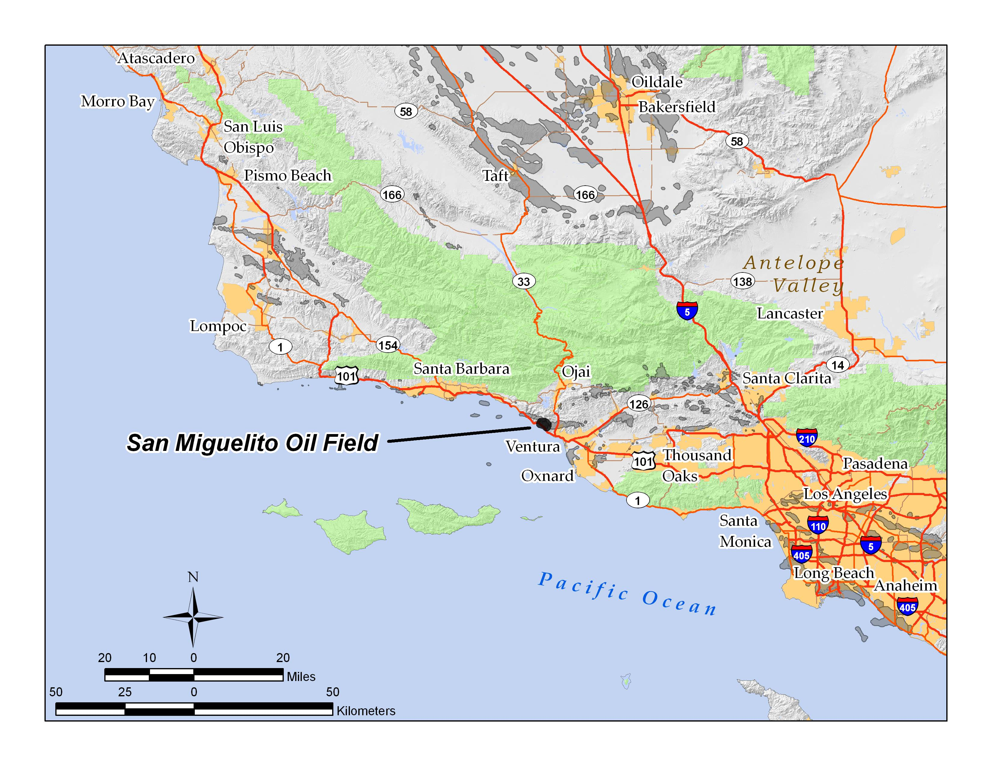 Location of San Miguelito field; by self in ArcGIS 9.3; GFDL/equiv